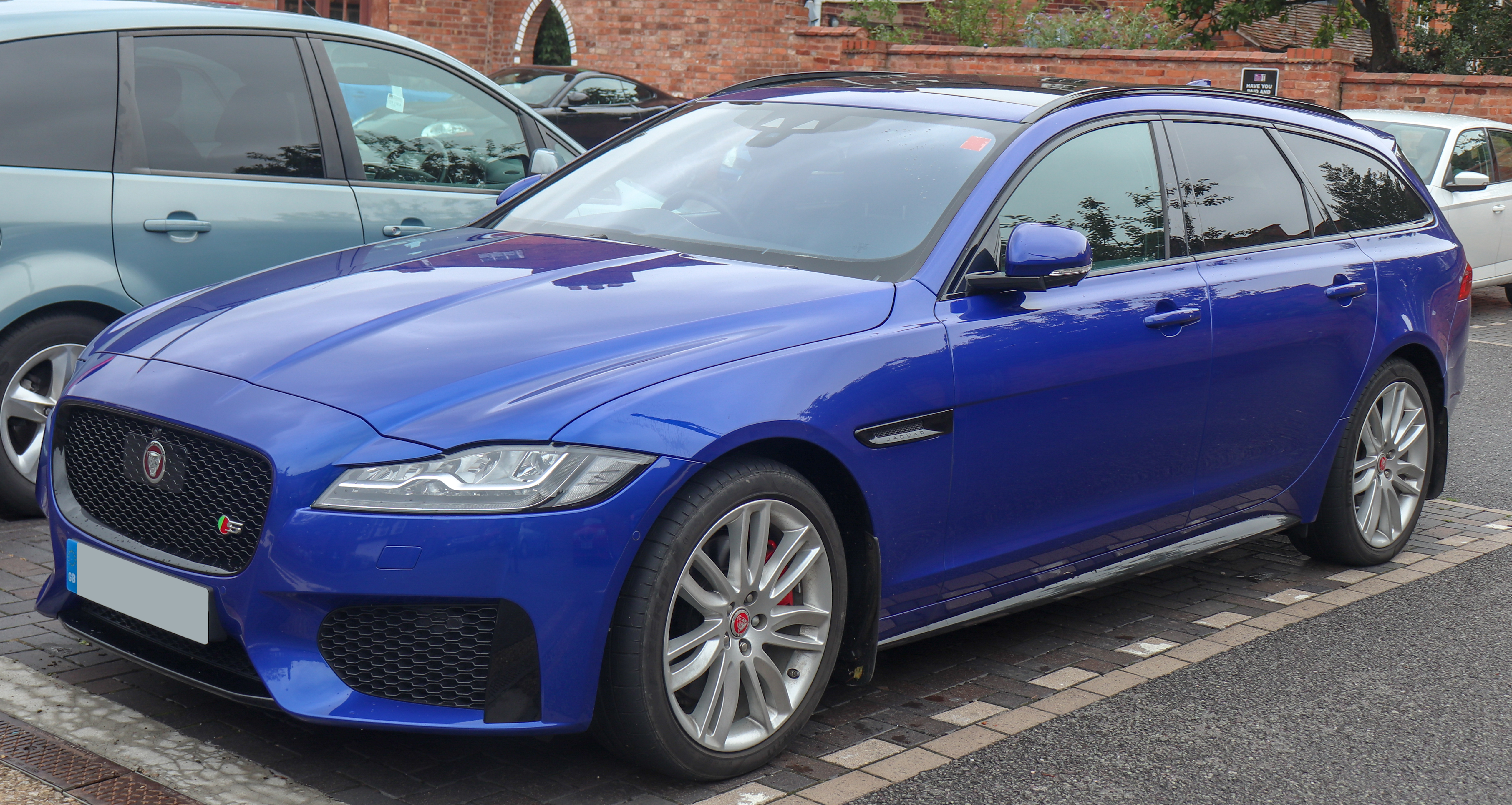 2017 Jaguar XF S 3.0 Front Taken in Warwick